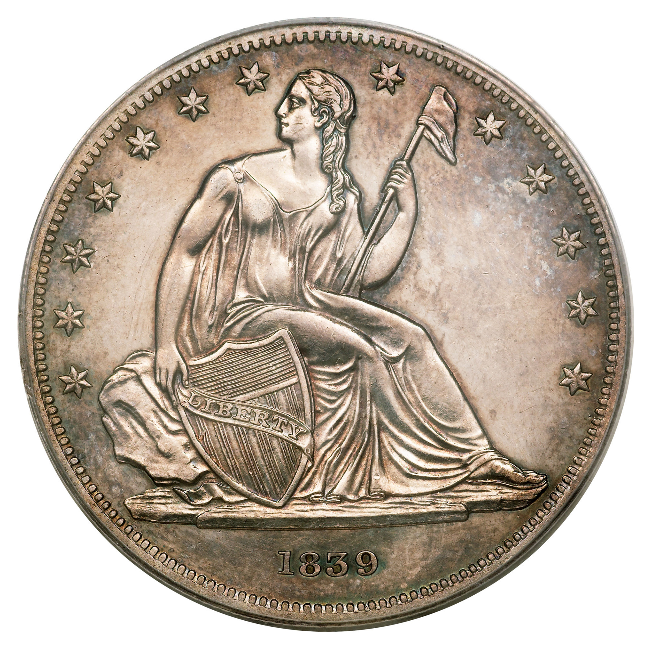 1839 P$1 Name Omitted (Judd-104 Restrike) (obv)(1129-920)